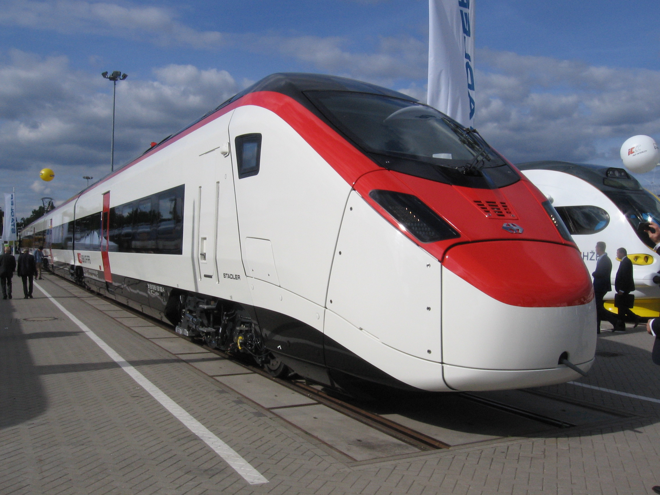 Stadler HS unit EC250 Giruno at Innotrans Berlin